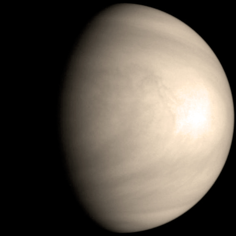 It was taken in February 1990 by Galileo's Solid State Imaging System at range of about 2 million miles as the spacecraft receded from Venus, about 6 days after the closest approach. In this violet-light image, north is at the top and the evening terminator to the left.